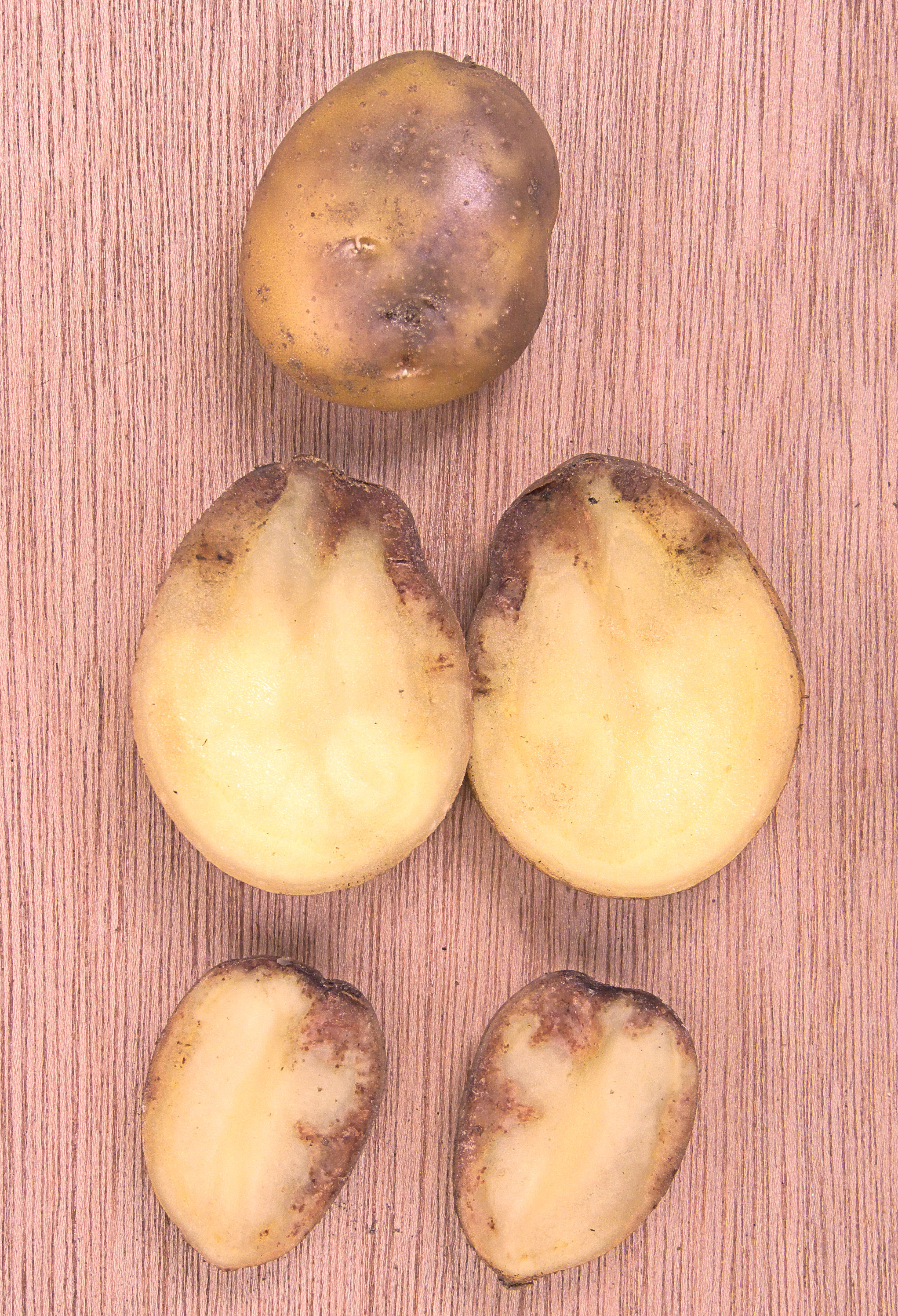 Potato Blight effects on the variety Doré